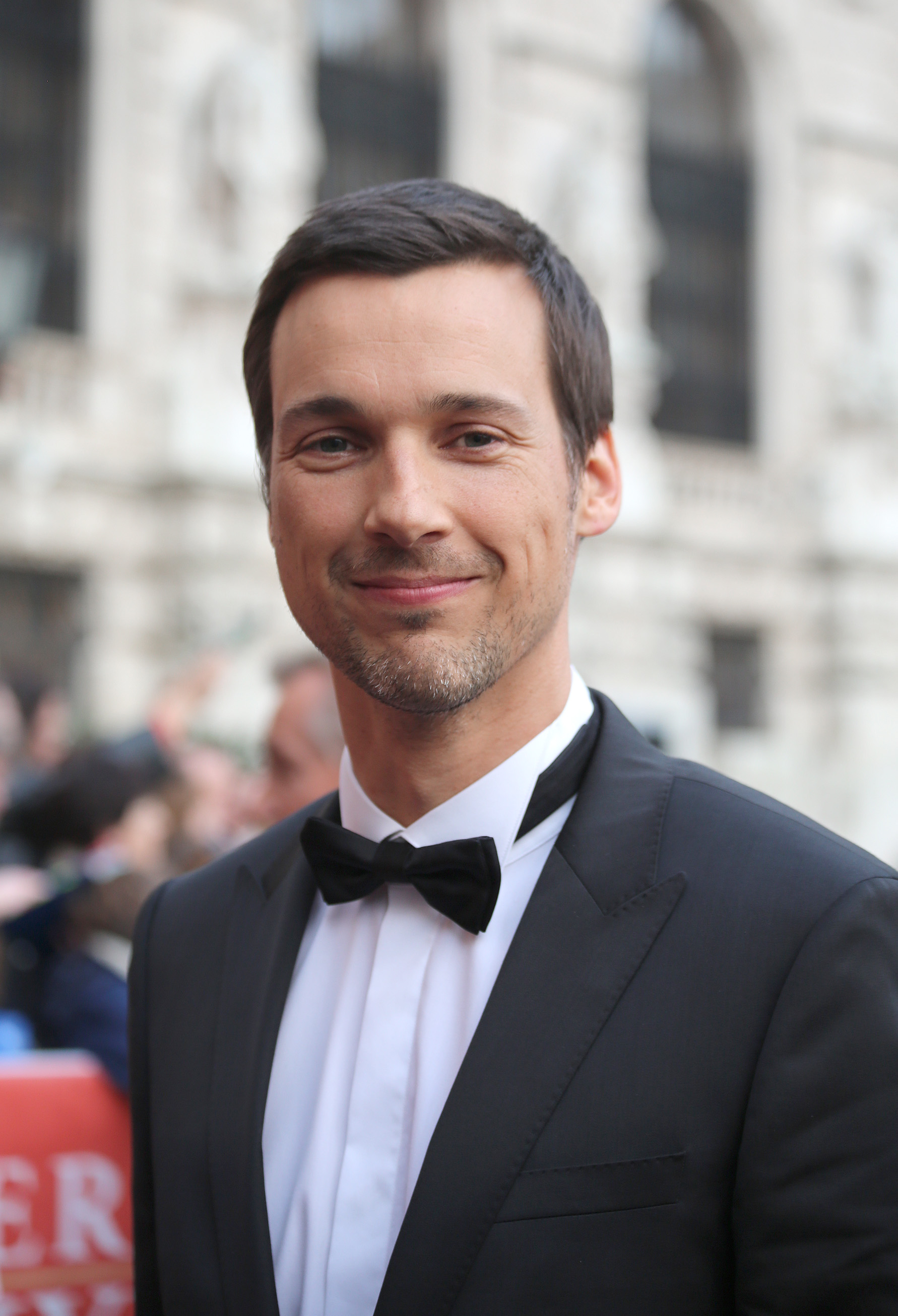 Florian David Fitz at the Romy film awards (Hofburg Imperial Palace in Vienna)